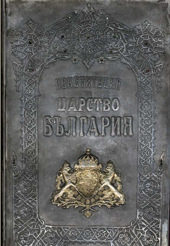 Constitution of Kingdom of Bulgaria, 1911